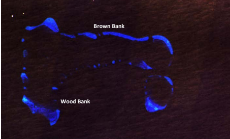 Wood Bank and Brown Bank, Spratly Islands